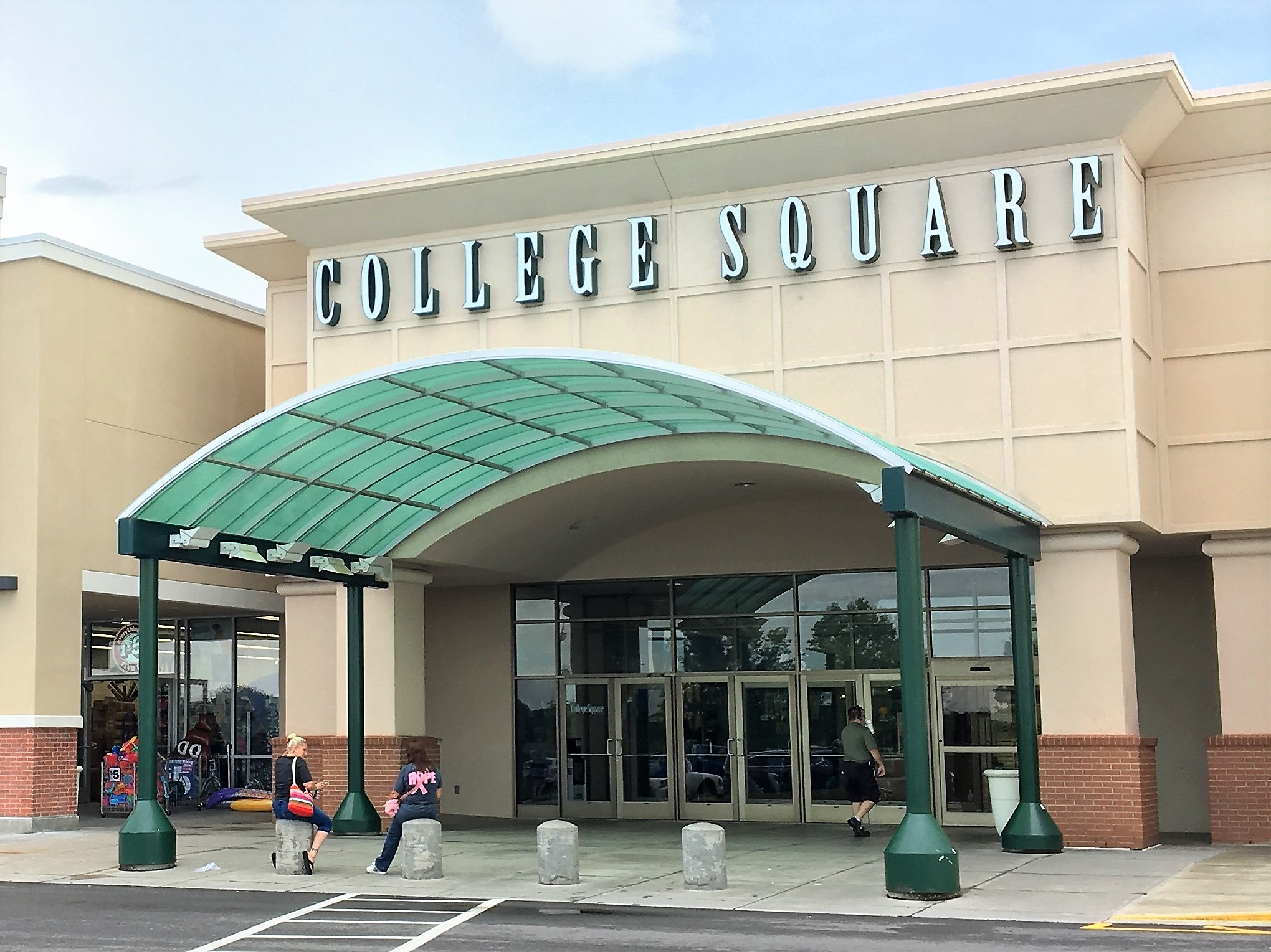 The entrance to College Square Mall, Morristown, Tennessee